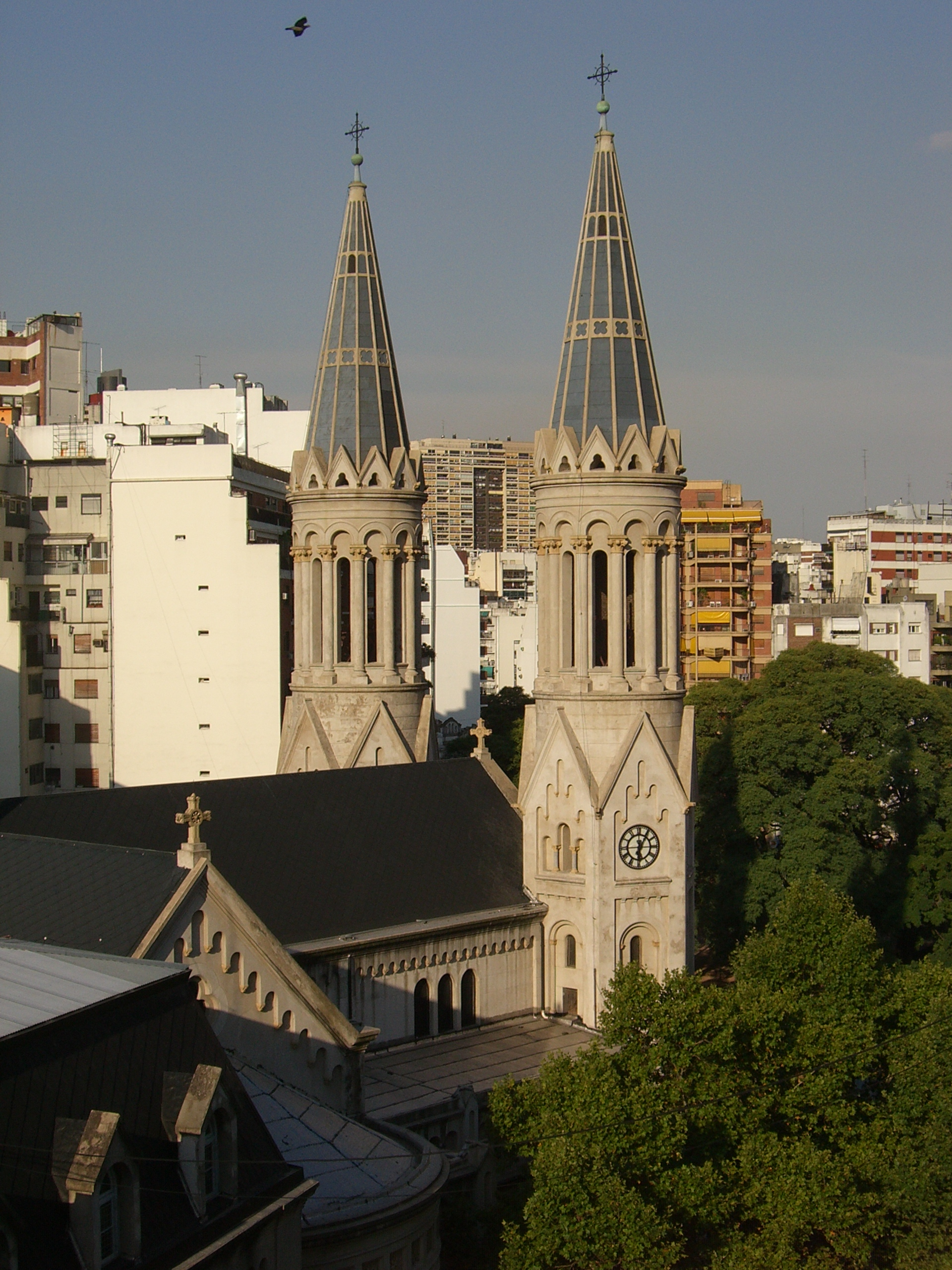 Church of the Virgin of Guadalupe, Guemes Plaza. Palermo district, Buenos Aires.